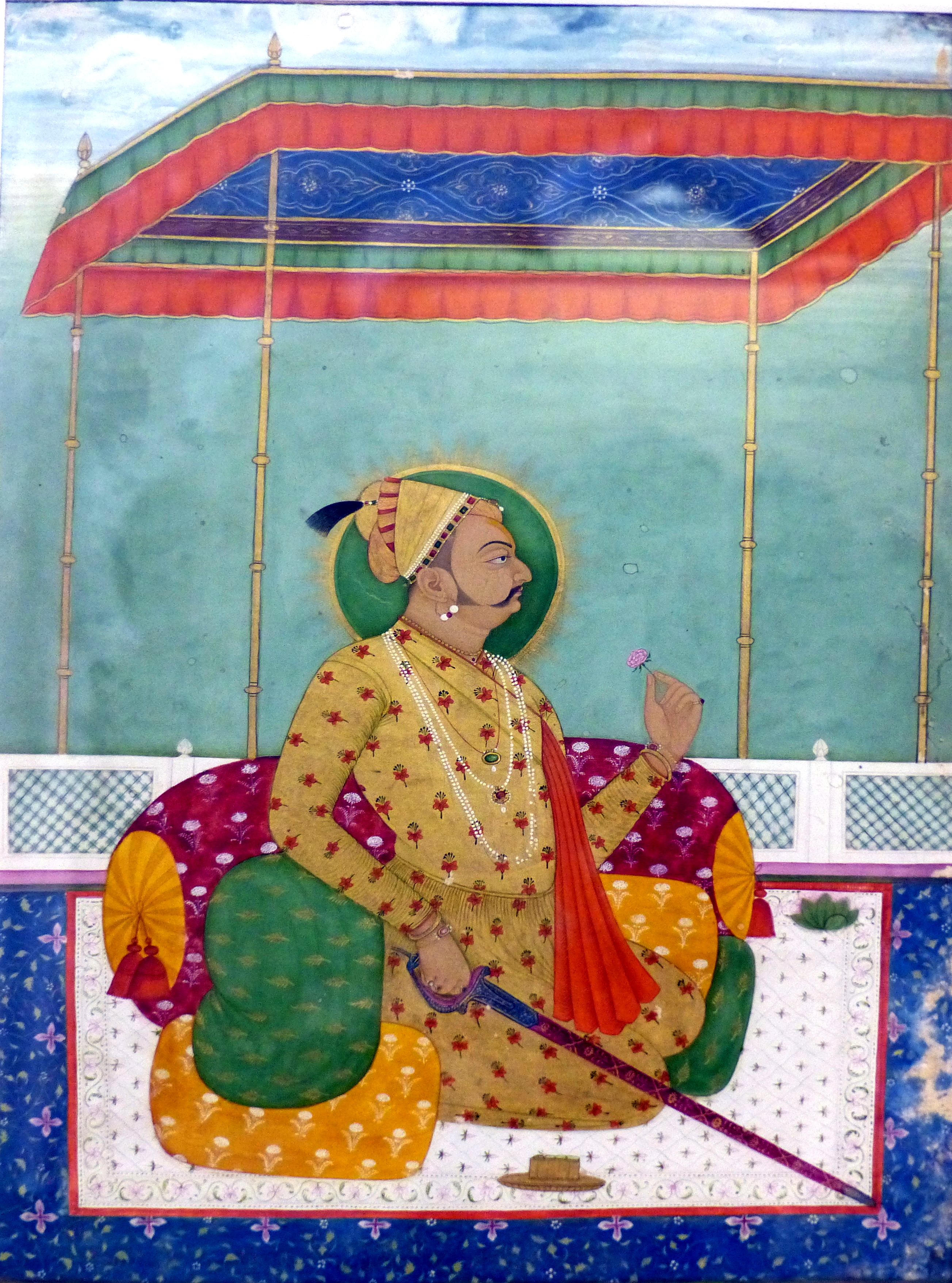 Jodhpur ( Rajastan / India ). Meranghar Fort Museum - Portrait of Maharaja Aijit Singh ( 1730s ) , Jodhpur